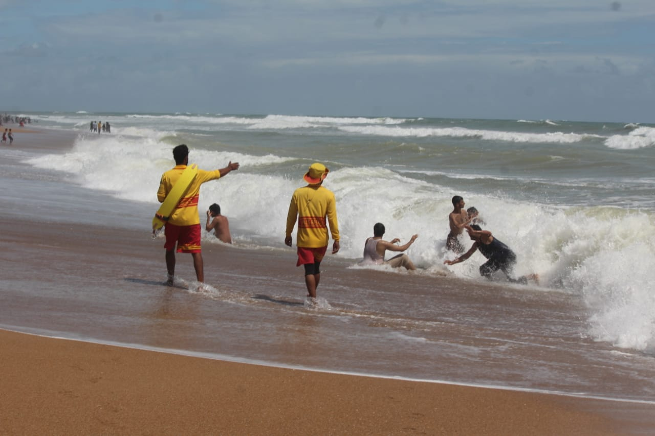 Pakistan Life Saving Foundation (PALS) lifeguards paroling the Sandspit beach (Pakistan).